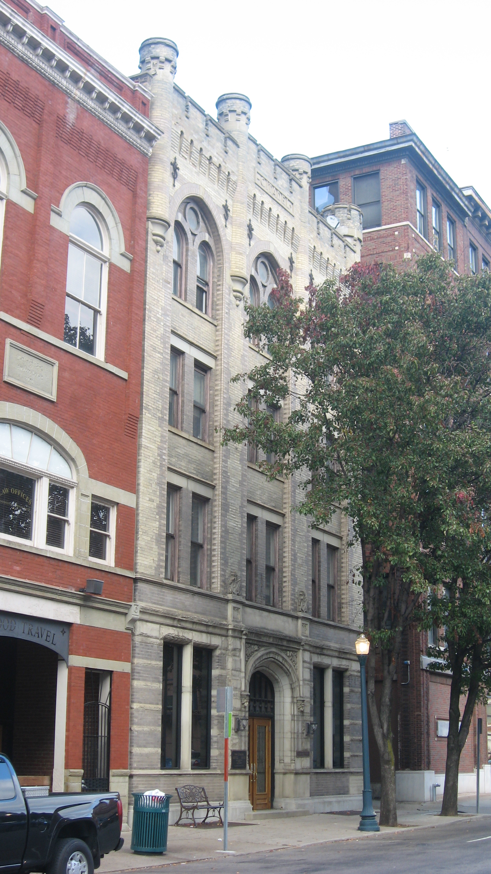 Front of the Underwriters Salvage Corps, located at 110-112 E. Eighth Street in downtown Cincinnati, Ohio, United States. Built in 1897, it is listed on the National Register of Historic Places.